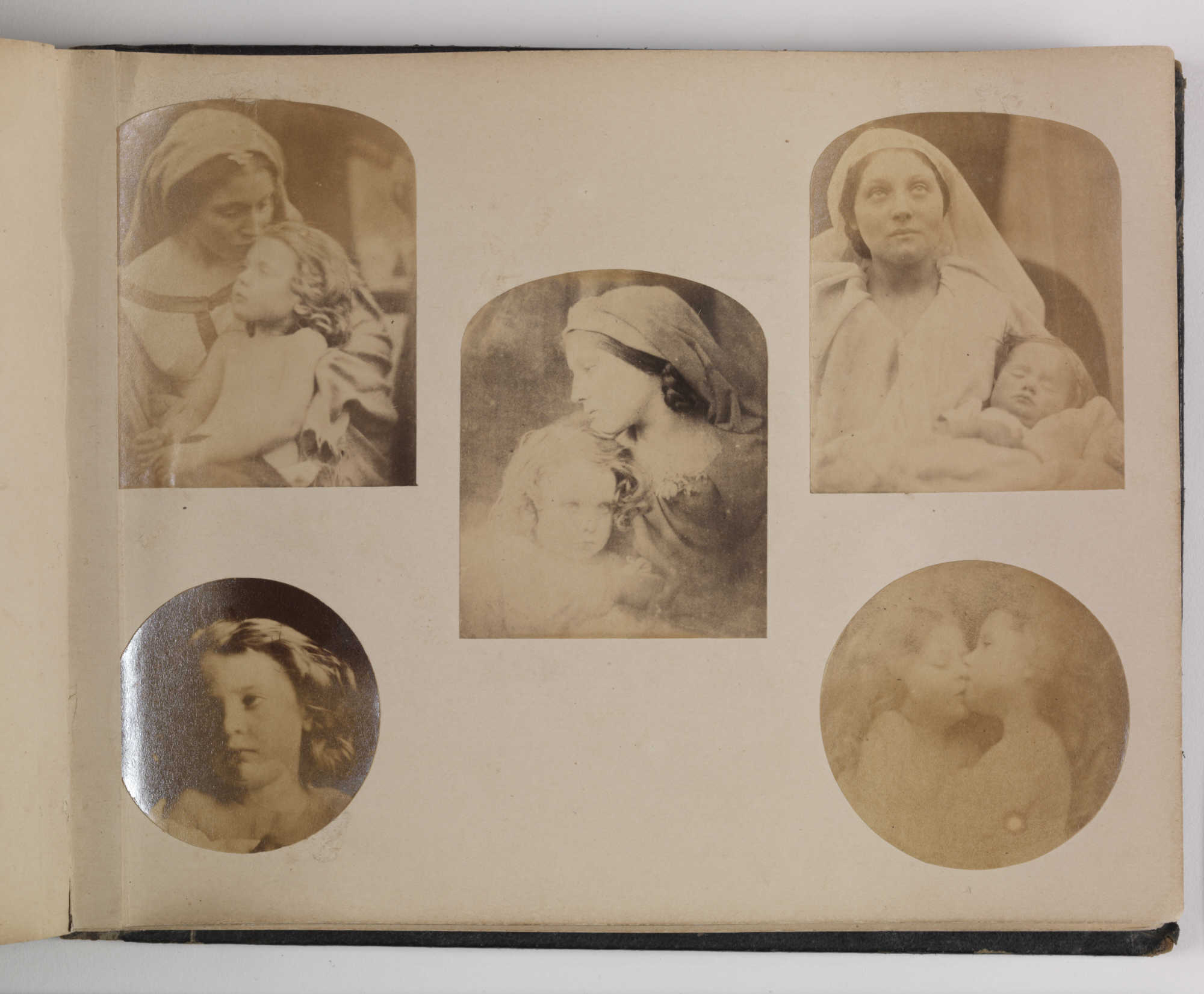 Top left: Blessing and Blessed, (Mary Hillier and Freddy Gould), 1865 Top right: La Madonna Esaltata / Fervent in prayer (Mary Hiller and Percy Keown), 1865 Centre: La Madonna Aspettante / Yet a little while (Freddy Gould and Mary Hillier), 1864 - 65 Bottom left: The Beauty of Holiness (Freddy Gould), 1866 Bottom right: The Turtle Doves (Alice Keown and Elizabeth Keown), 1864 Centre new variant previously not recorded in Cox, Julian, and Colin Ford, with contributions by Joanne Lukitsh and Philippa Wright. Julia Margaret Cameron: the Complete Photographs. London: Thames and Hudson in association with The J. Paul Getty Museum, Los Angeles, and The National Museum of Photography, Film & Television, Bradford, 2003. National Art Library pressmark: 604.AD.0437 Cameron was presented with her first camera in 1863, at the age of 48, and subsequently embraced photography with a passion. She compiled this album in 1869 for her son, Hardinge Hay Cameron. It contains 112 miniature prints of her larger works - portraits of famous men, fair women, literary scenes and religious images. This acquisition was made possible through funding from The Heritage Lottery Fund and from The Art Fund, the UK's leading independent art charity.